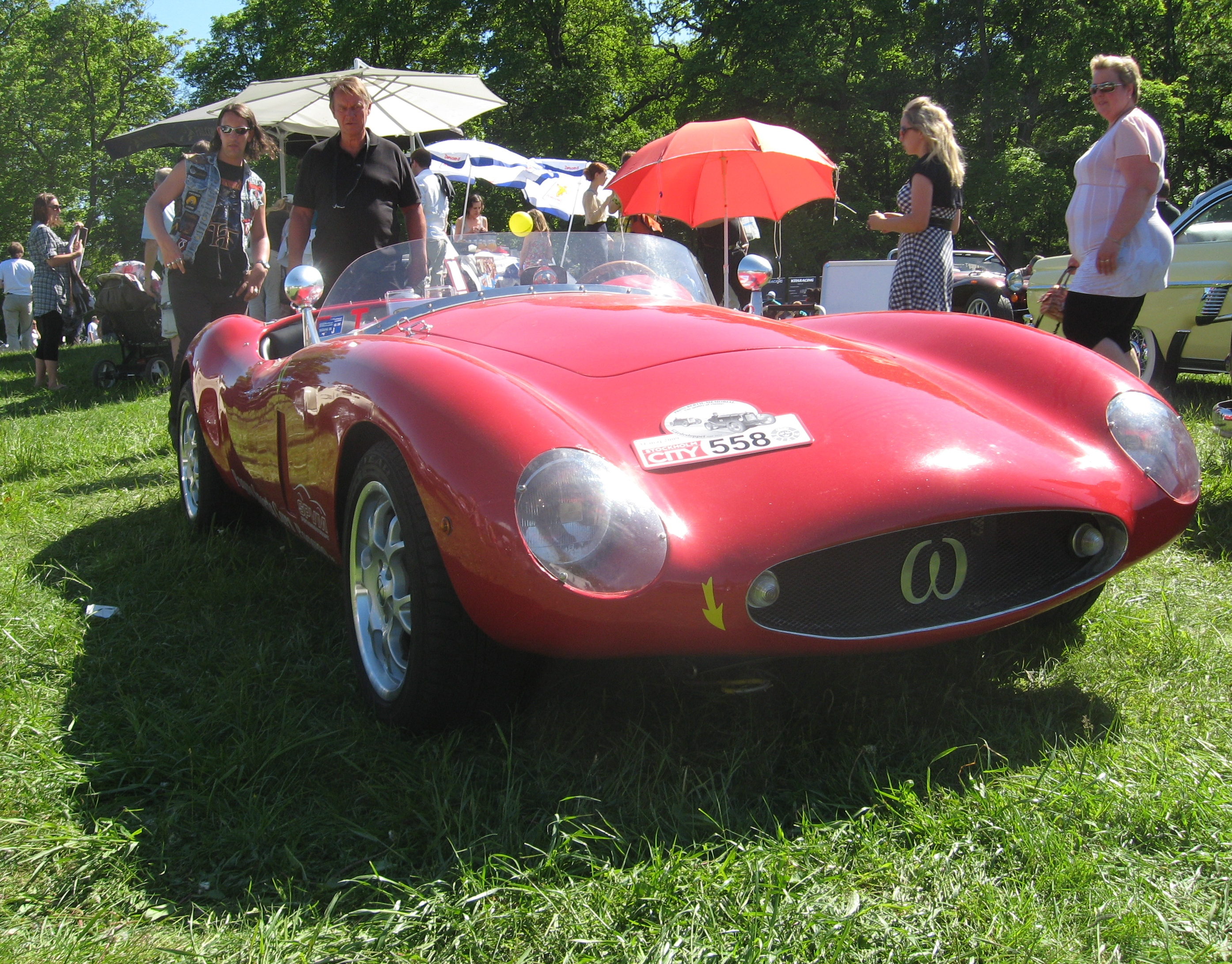 Pagano is a kit car based on Alfa-Romeo parts. It's basicly the old Ockelbo with a slightly wider rear. The body was directly molded from a Ferrari Mondial.